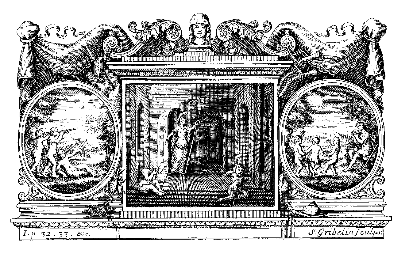 An emblem engraved for Lord Shaftesbury's Letter concerning Enthusiasm according to the author's instructions.